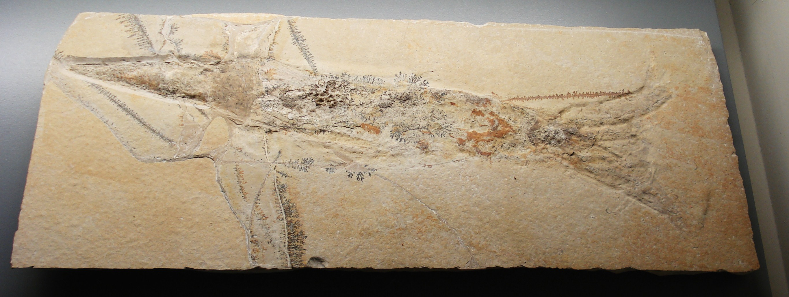 Fossil of Acanthoteuthis speciosa